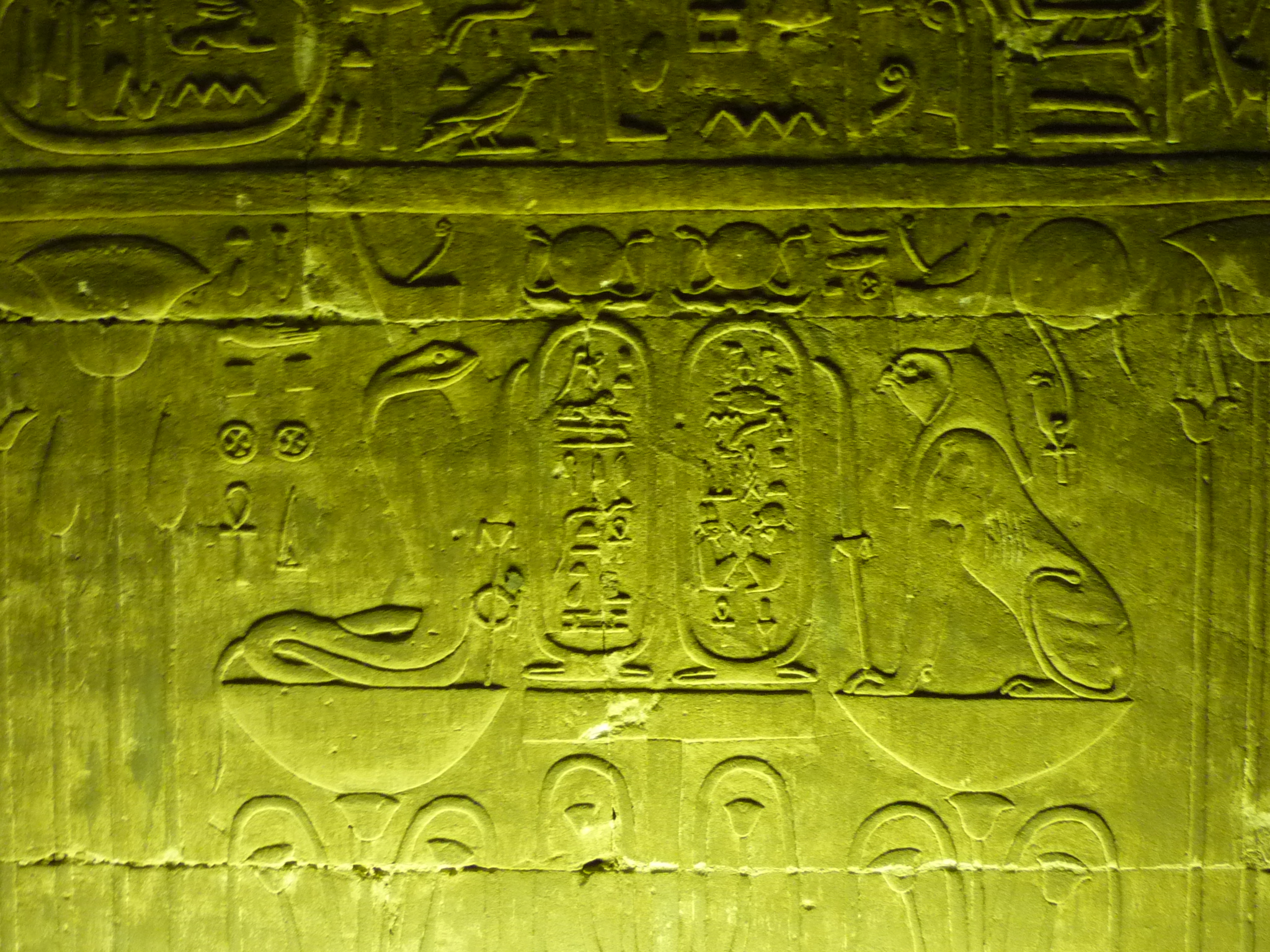 Wall relief of Wadjet and Horus in Cradle chapel, temple of Edfu, Egypt